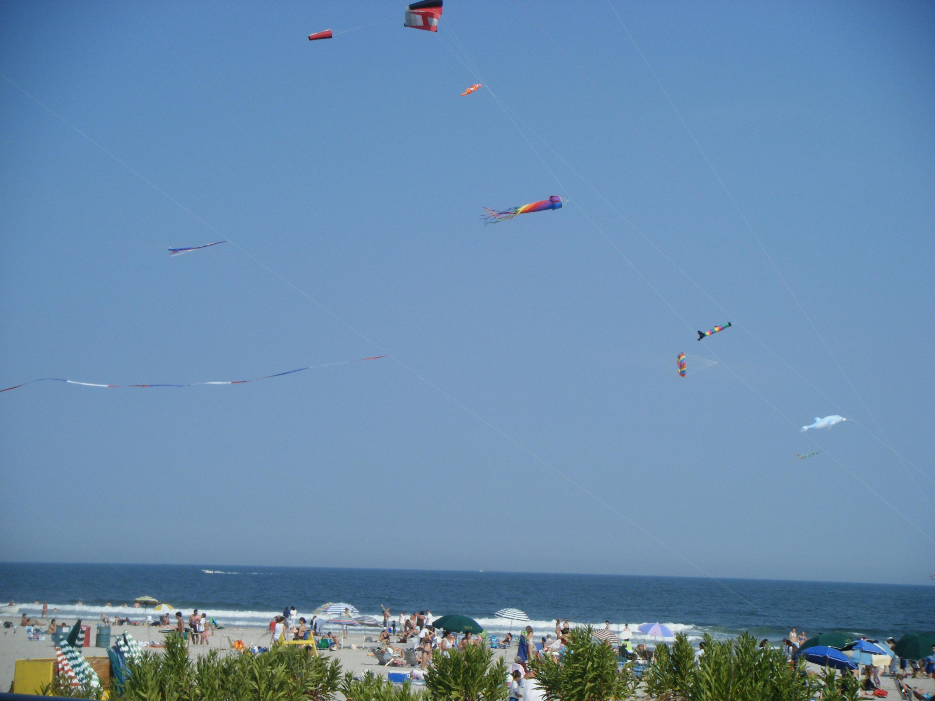 Kites on the Ocean City, New Jersey beach at 12th Street